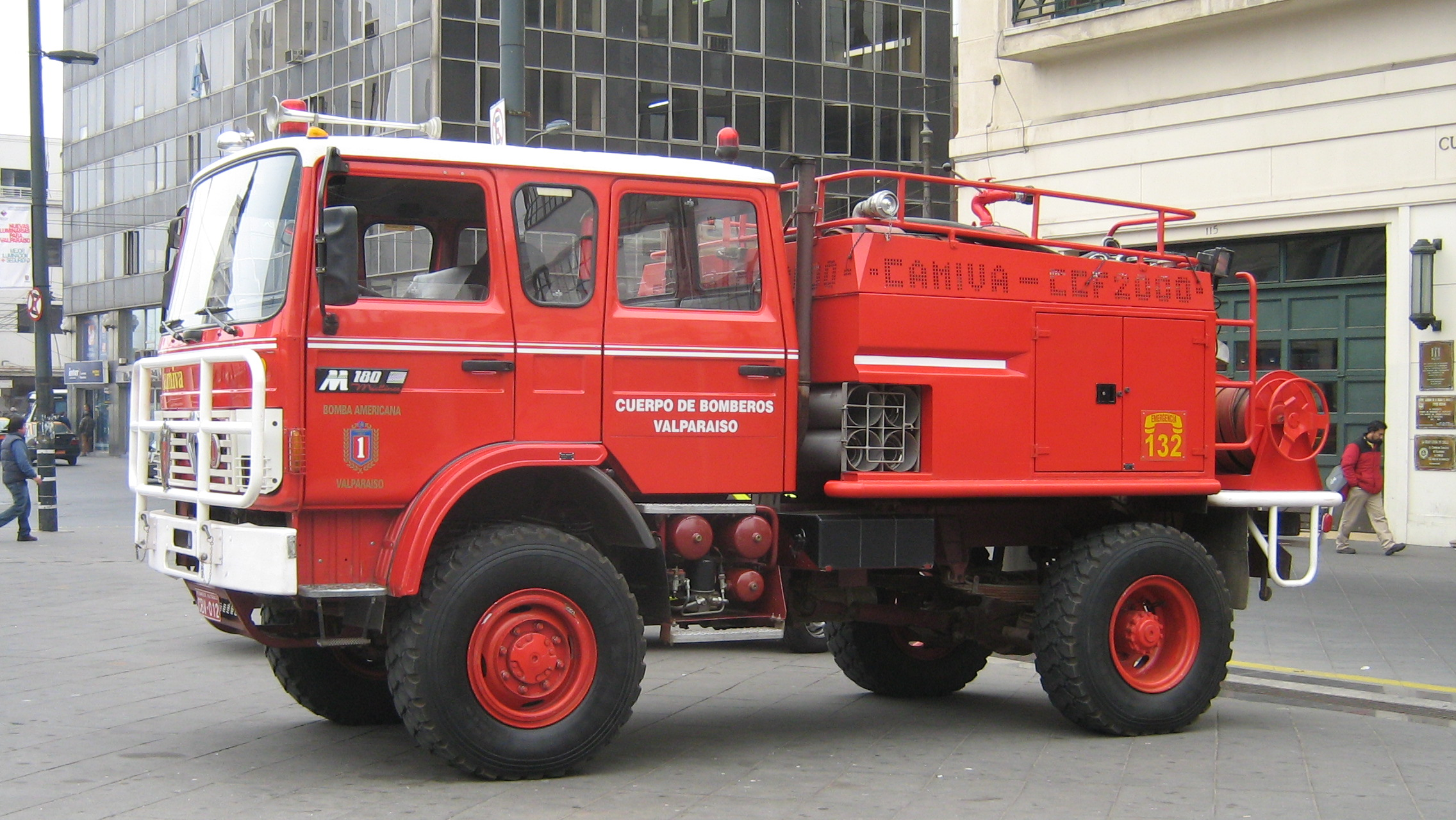 Fire engine (Fire truck)